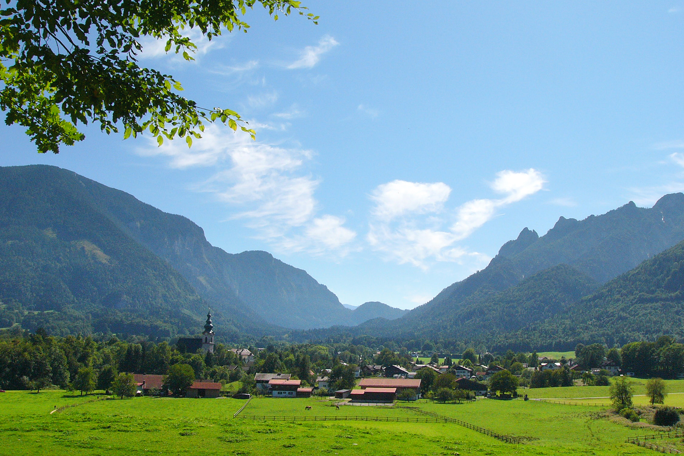 View to the village of Großgmain in Austria.